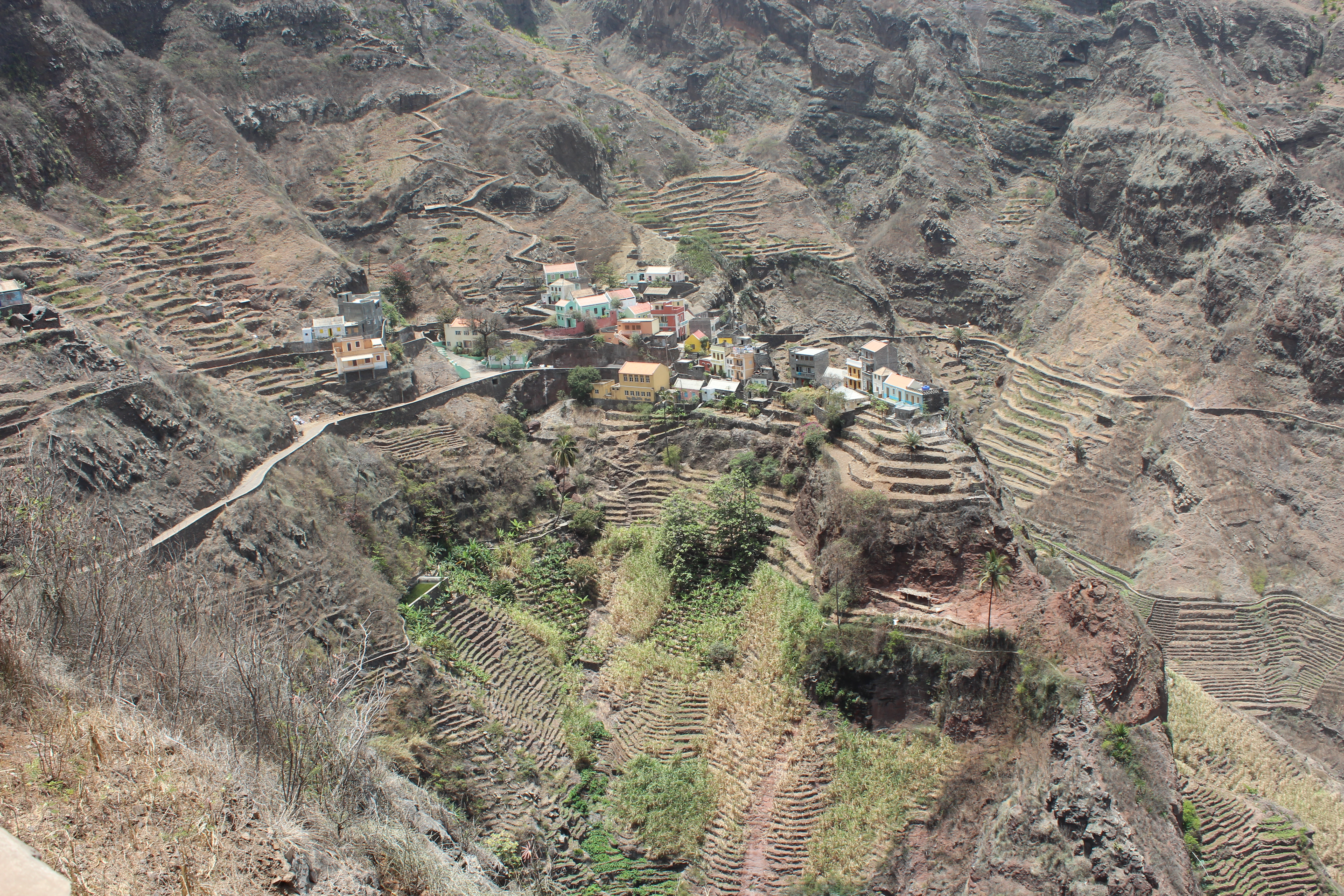 Island of Santo Antão, Cabo Verde